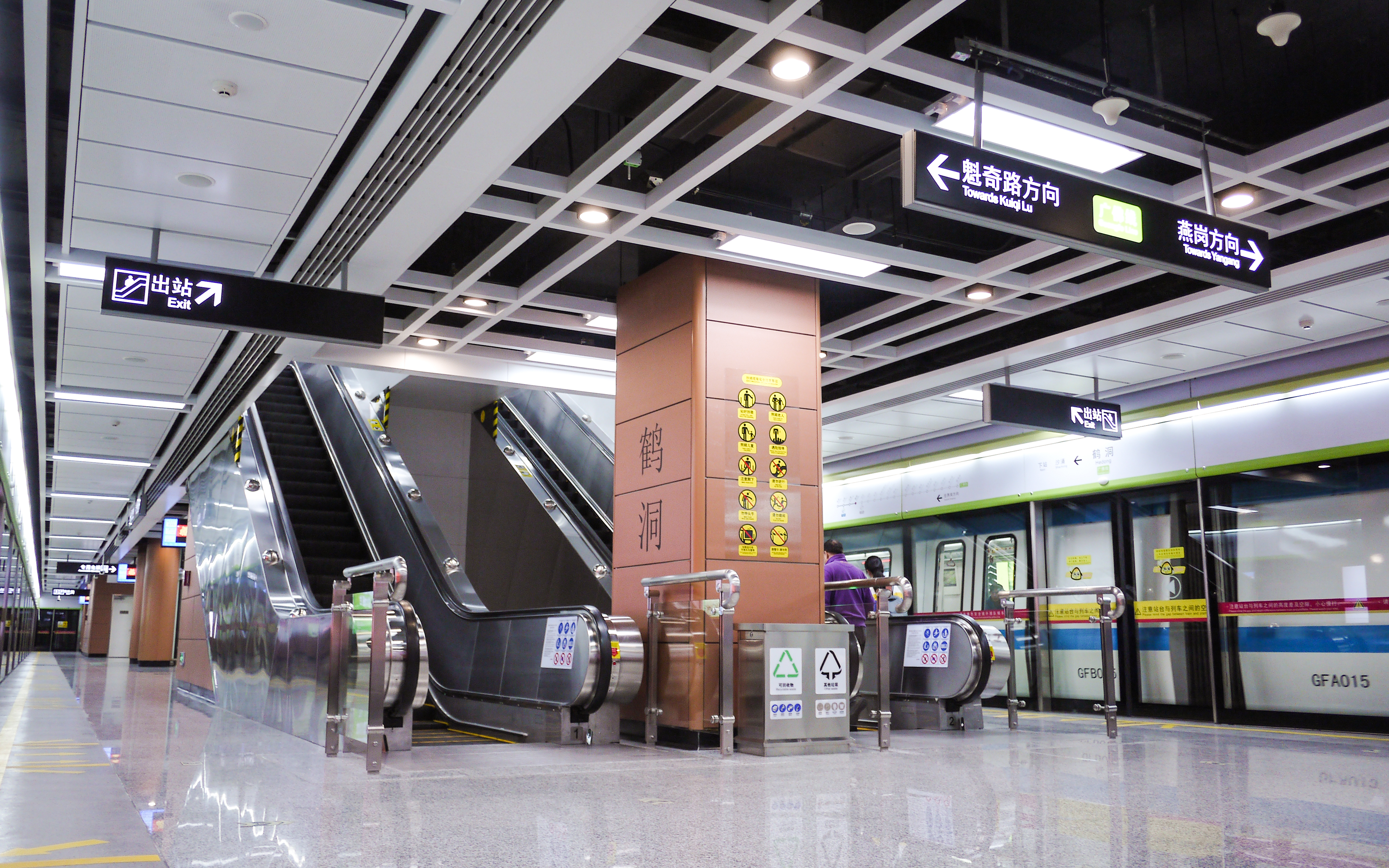 Hedong Station in 12/28/2015